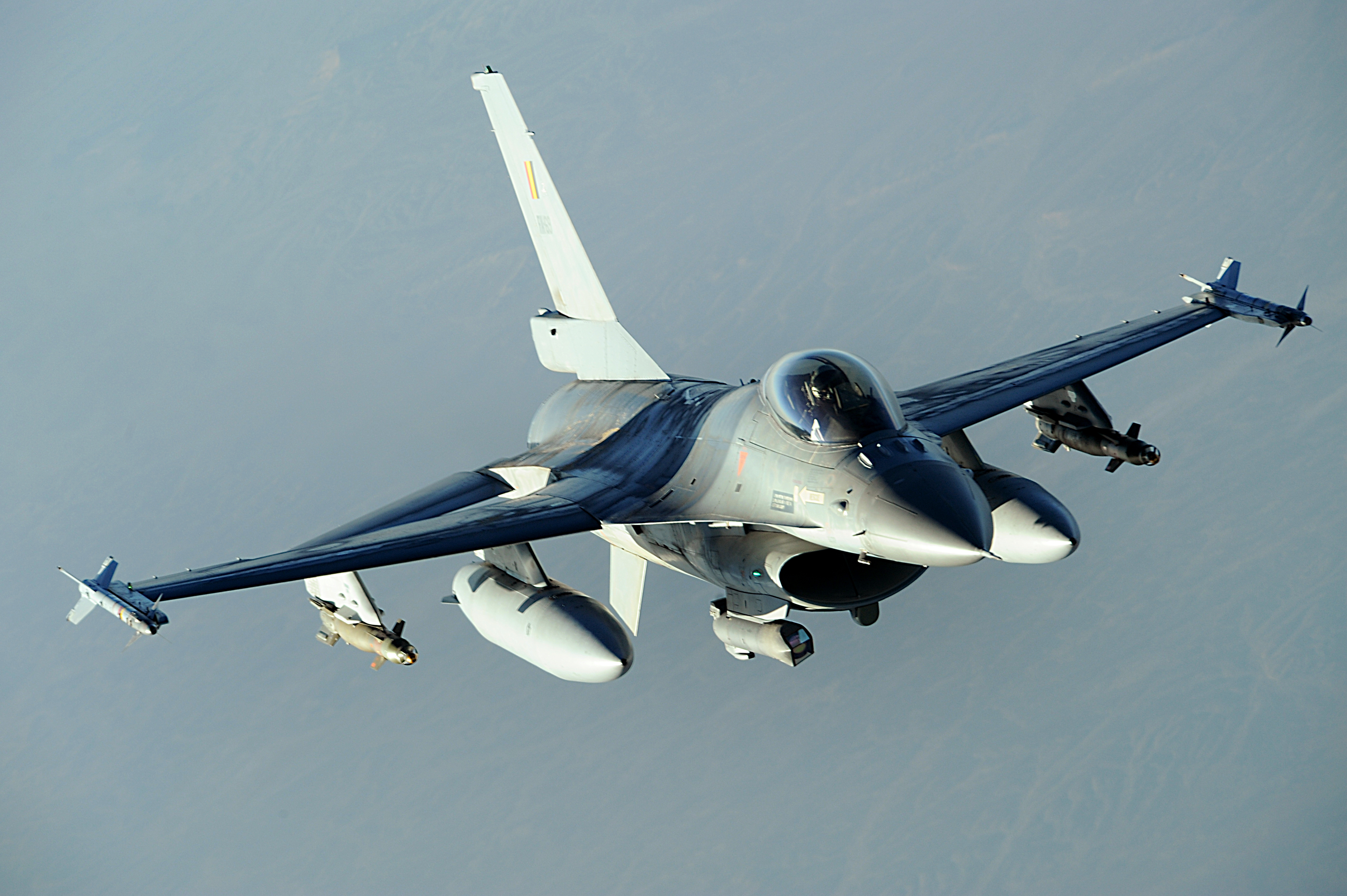 A Belgian military F-16 Fighting Falcon conducts a combat patrol over Afghanistan Dec. 12, 2008.Un